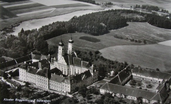 Roggenburg Abbey had been a self-governing imperial abbey up to 1802-03. Poscard from circa 1930.